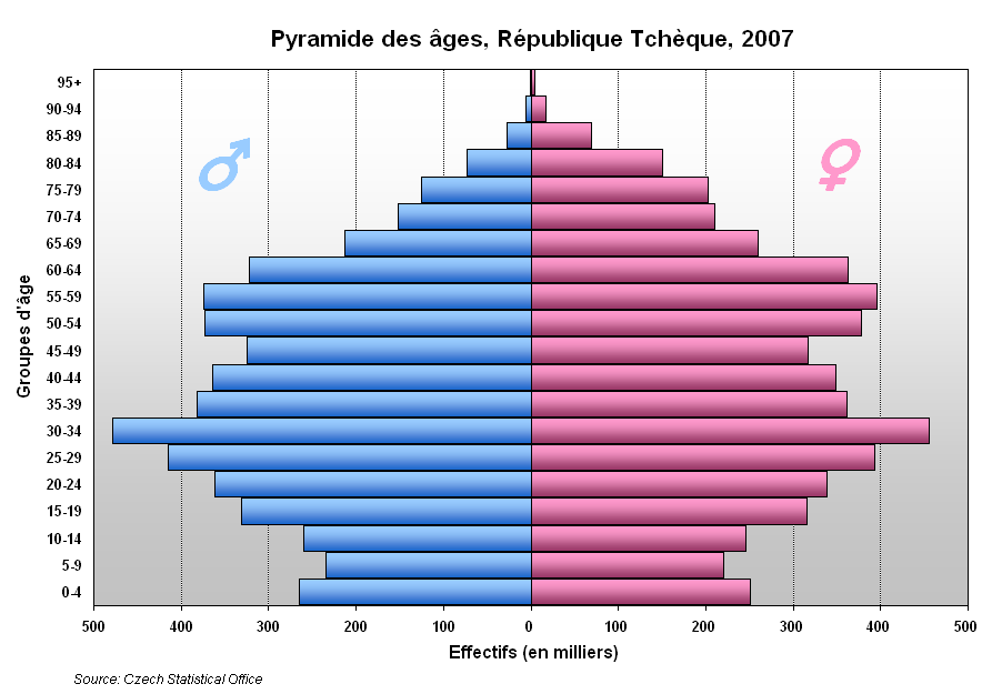 Czech Republic Population pyramid, 2007